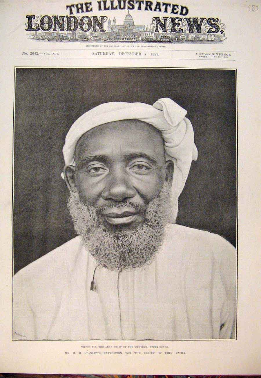 Tippoo Tip, the Arab chief of the Manyewa, Upper Congo.